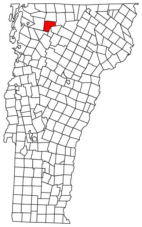 Map of Vermont towns with Bakersfield highlighted